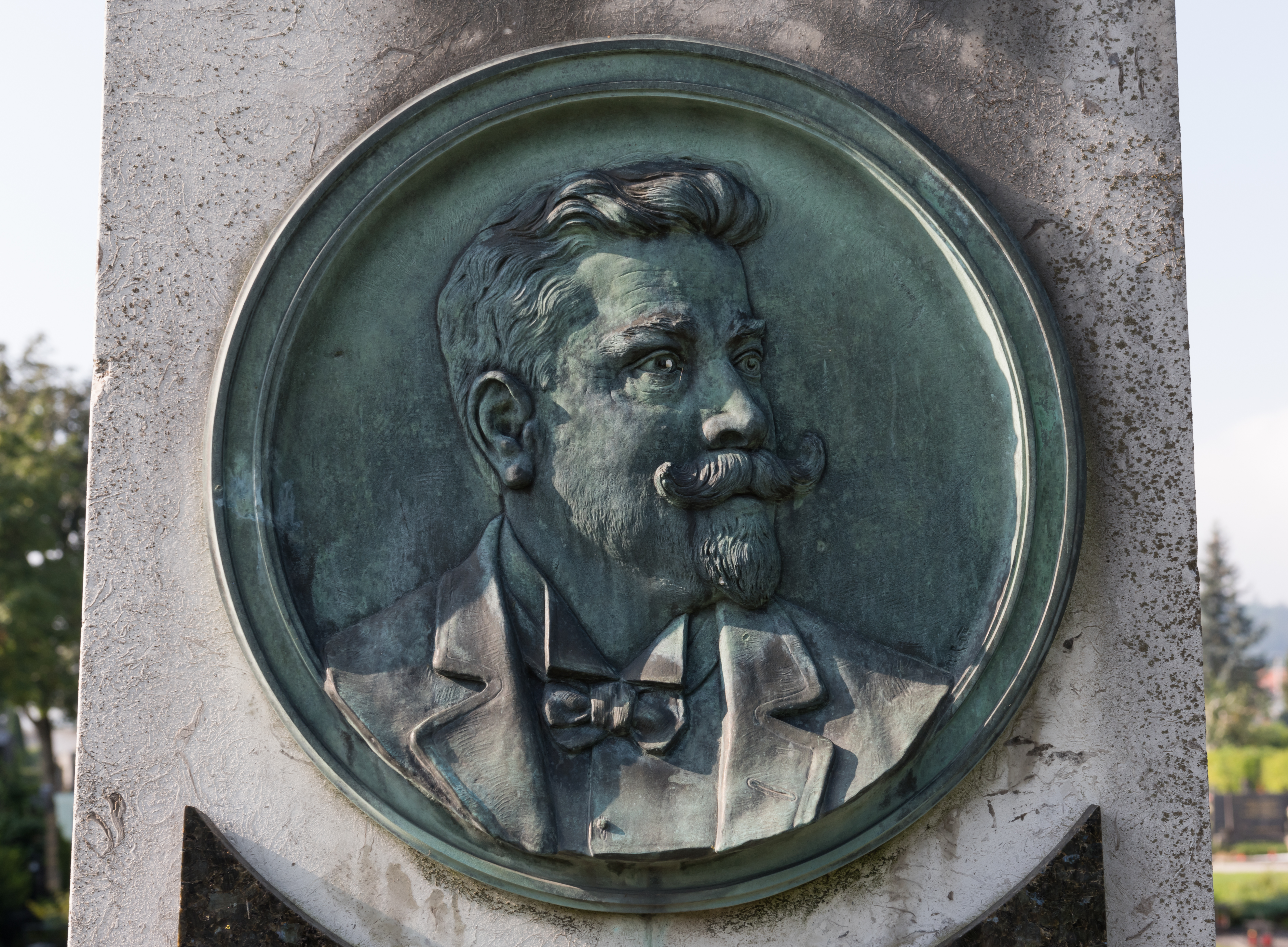 Grave of the sculptor Jakob Wald and his family, cemetery, 9th district “Annabichl”, Klagenfurt, Carinthia, Austria, EU